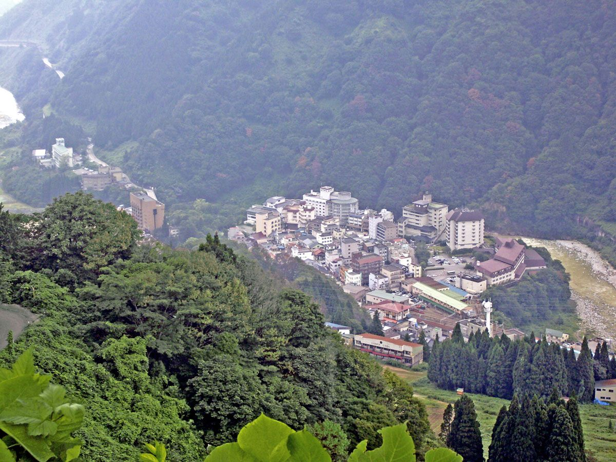 Unaduki Spa